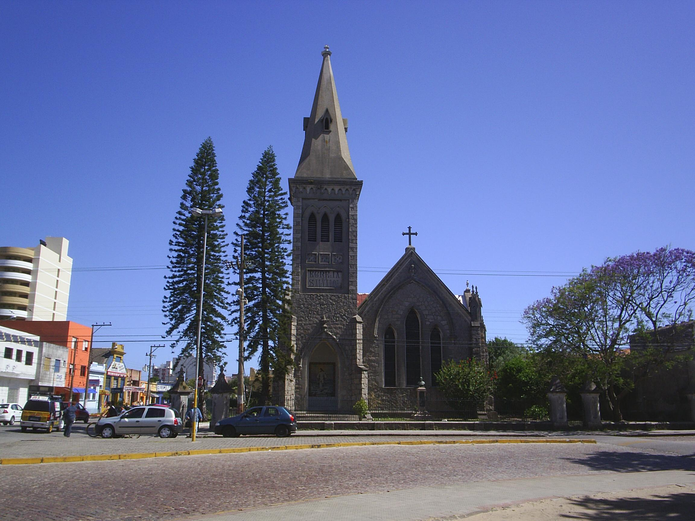 Anglican Church of the Savior, Rio Grande, Brazil